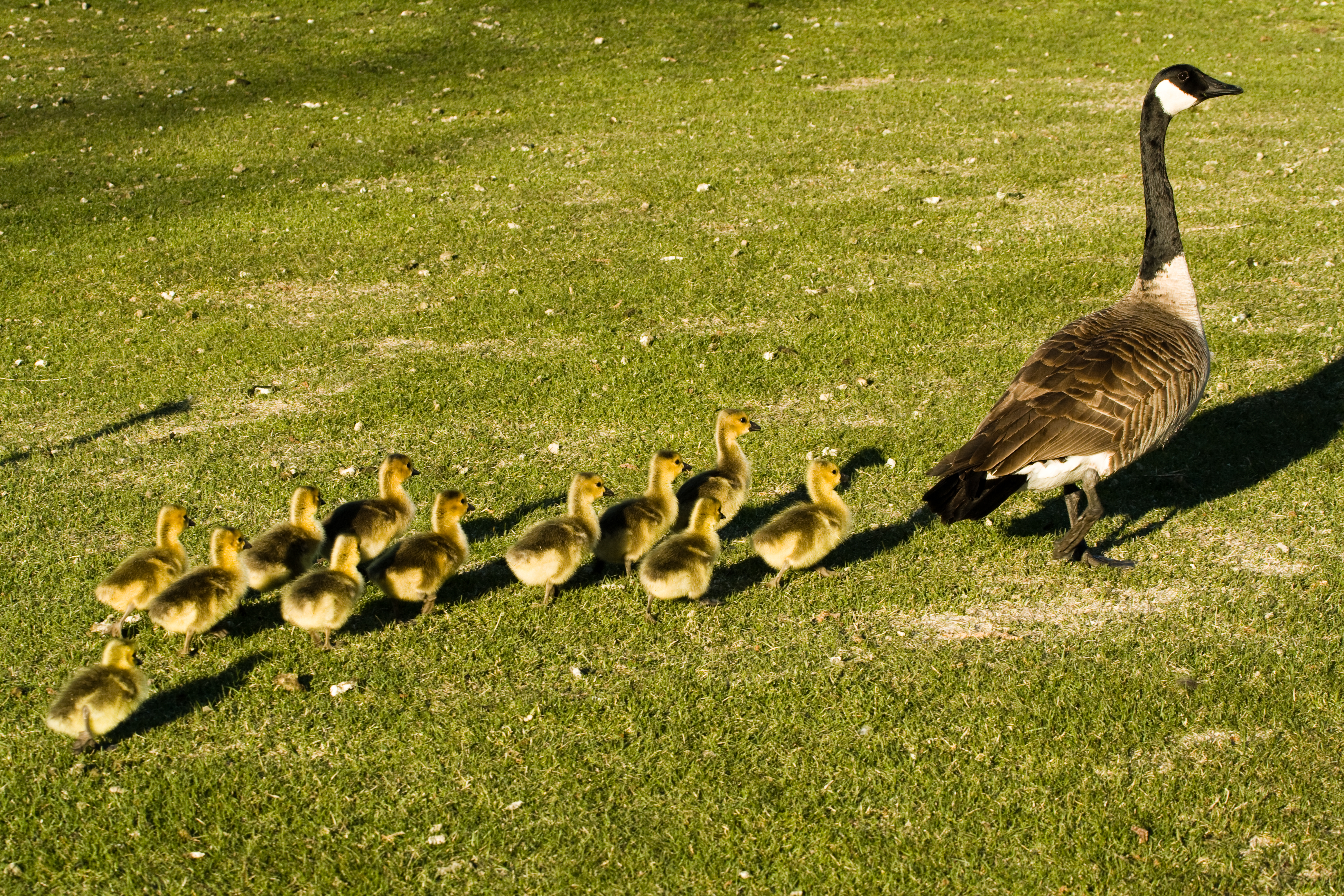 Canada Goose goslings walking behind an adult in Calgary, Alberta, Canada.